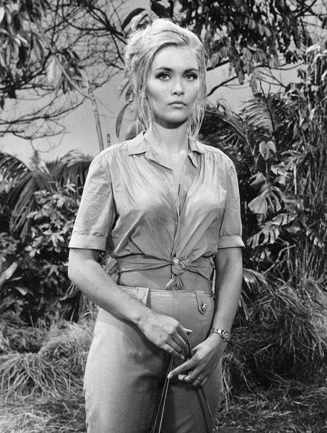 Photo of Alexandra Bastedo as Sharon Macready from the British television program The Champions. During the summer of 1968, the program was broadcast in the US on NBC Television. It didn't air in the UK until September 1968. The photo has no copyright markings on it as can be seen in the links above.